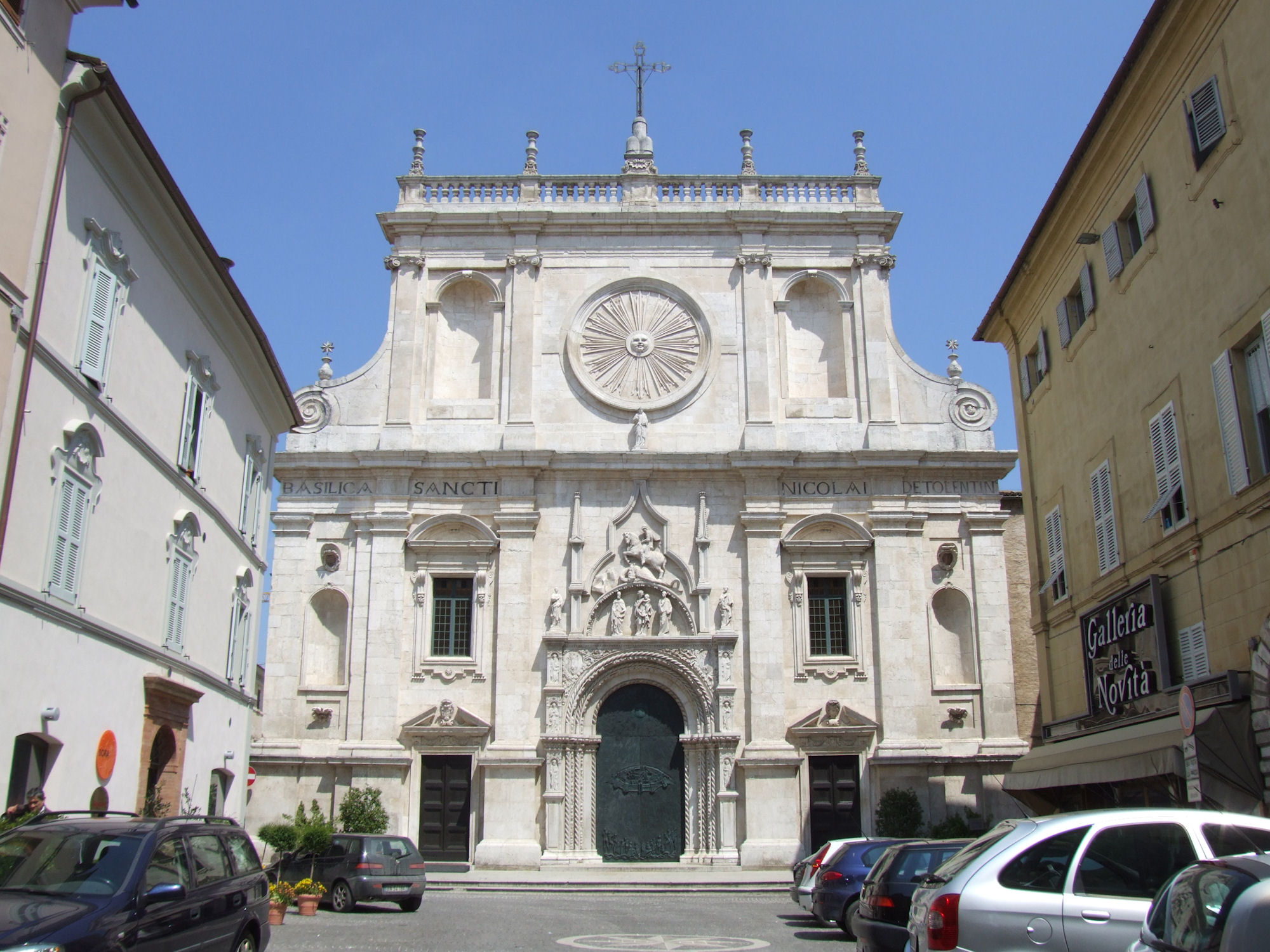 Baroque facade of Basilica di San Nicola da Tolentino — in Tolentino, of the Marche region, eastern central Italy.